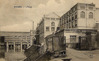 1911 postcard